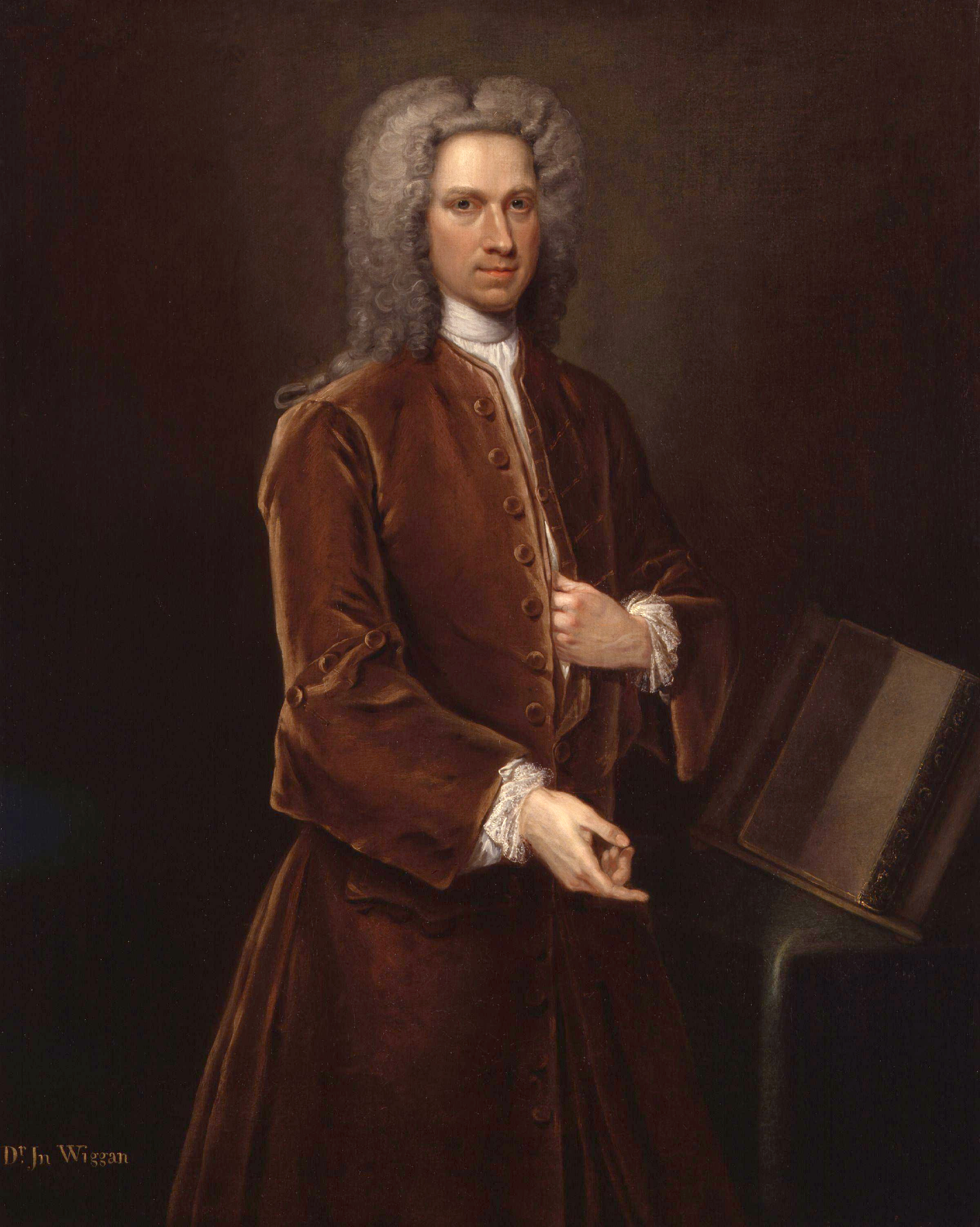 John Wigan, by unknown artist.